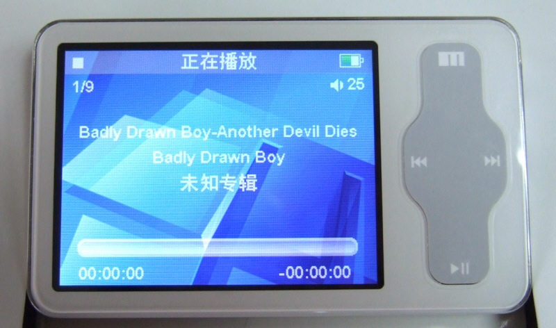 Meizu Miniplayer